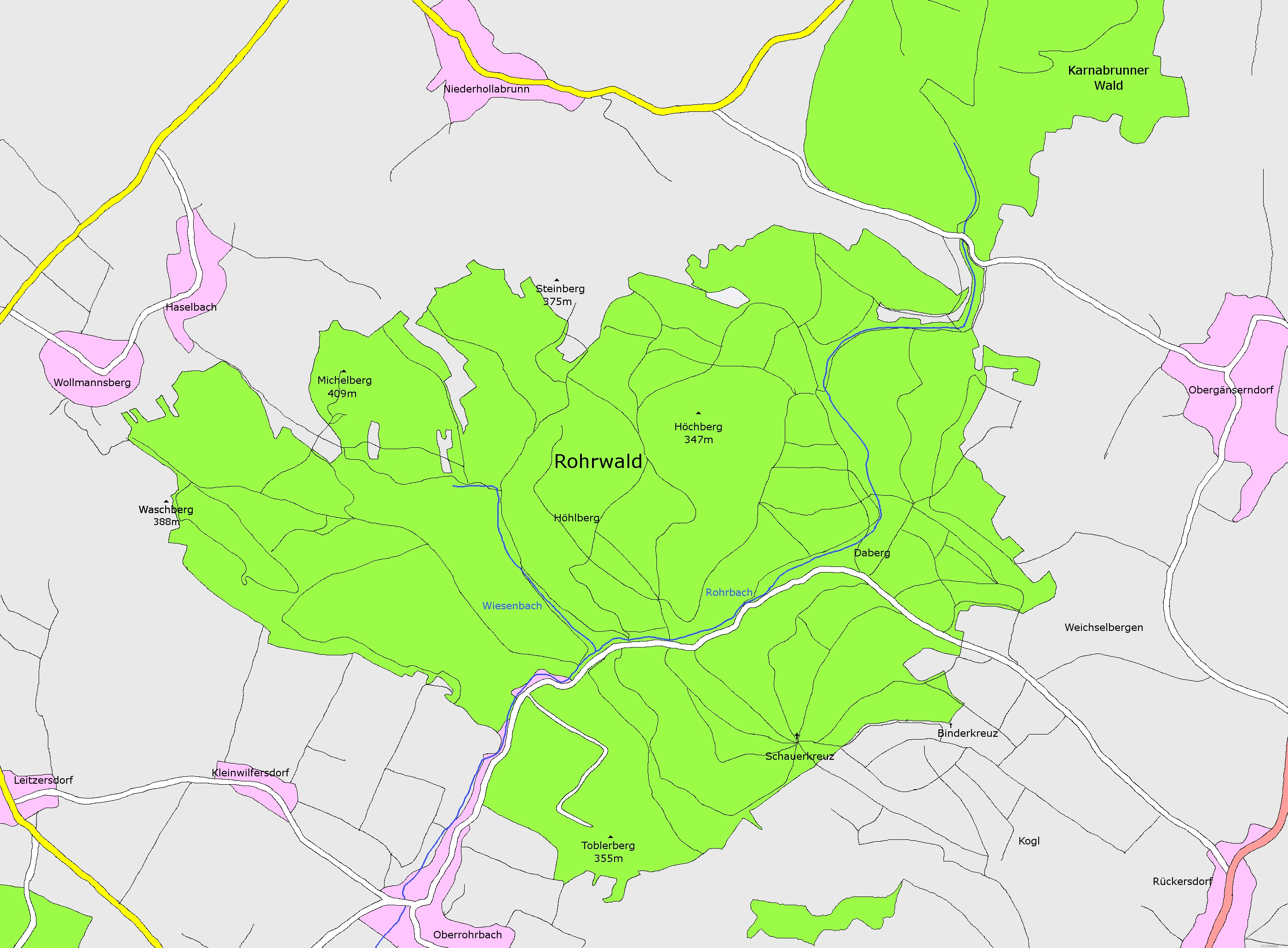 Draft Rohrwald